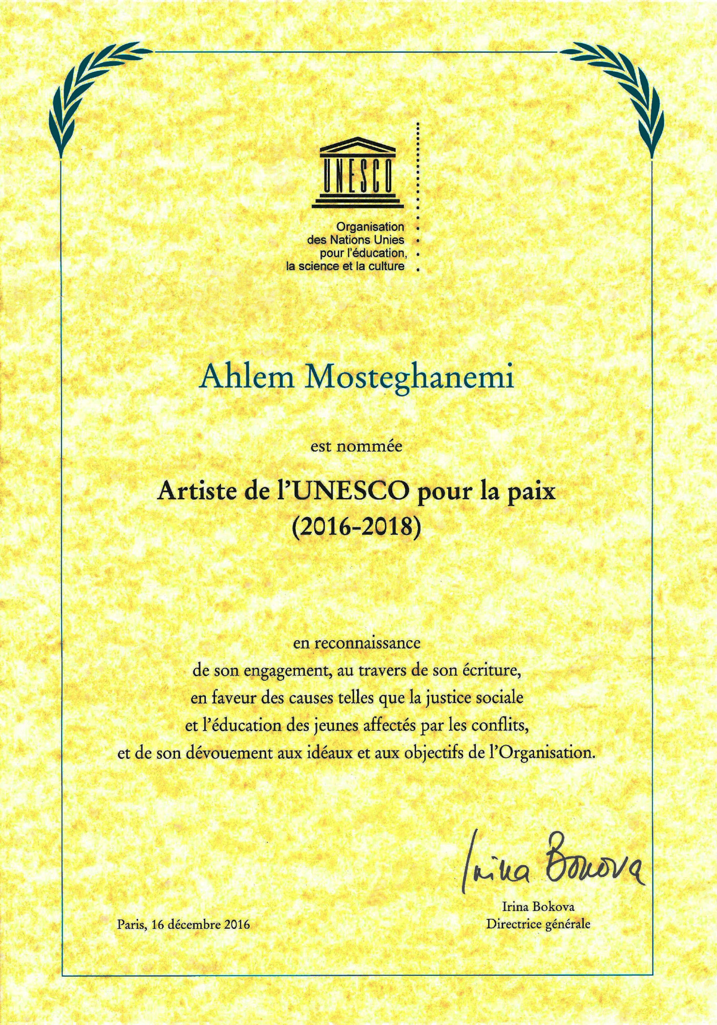 Title of UNESCO Artist for Peace given to Ahlem Mosteghanemi by Irina Bokova, director of the organization, on the 16th of December 2016 in Paris.